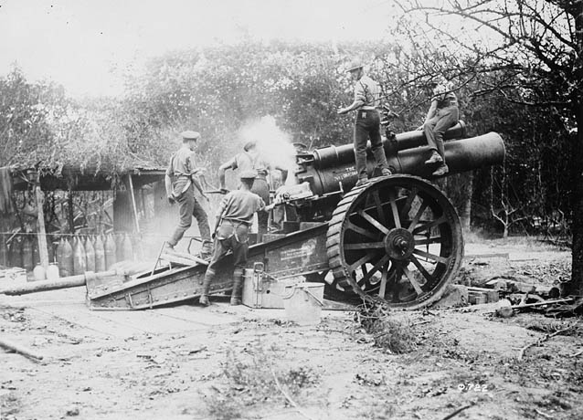 Photograph of British 8 inch howitzer in action, France. The breech is open and gas is seen escaping after firing.